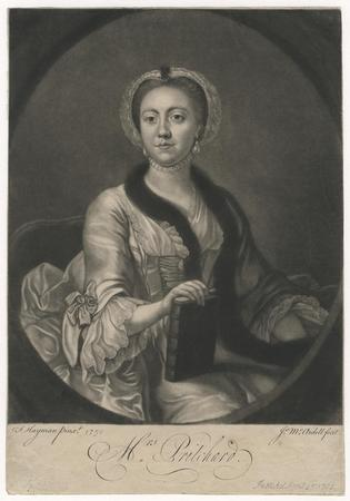 Portrait of Hannah Pritchard (1711-1768), British actress